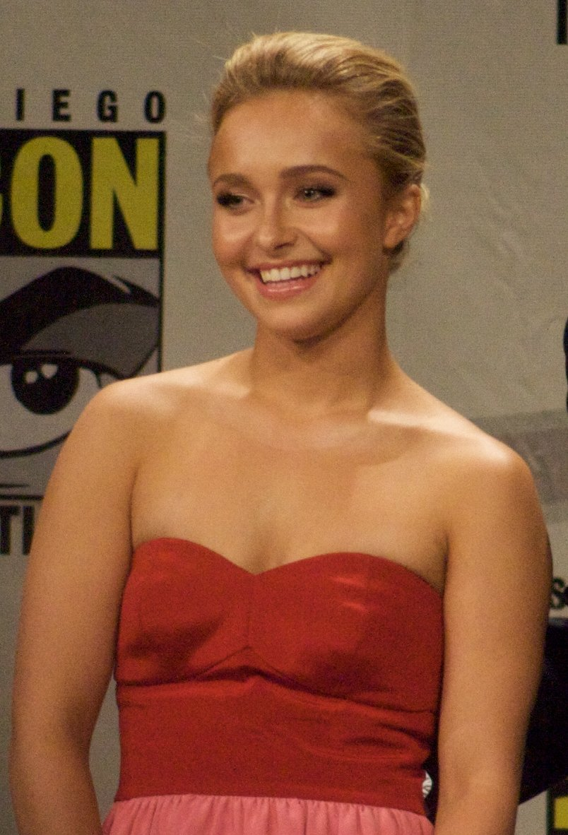 Hayden Panettiere at the Heroes panel, comic-con 2008.